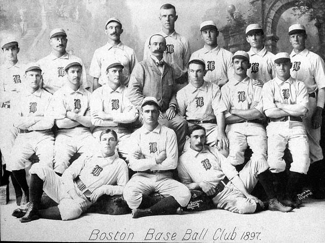 1897 Boston Beaneaters Captioned As {}